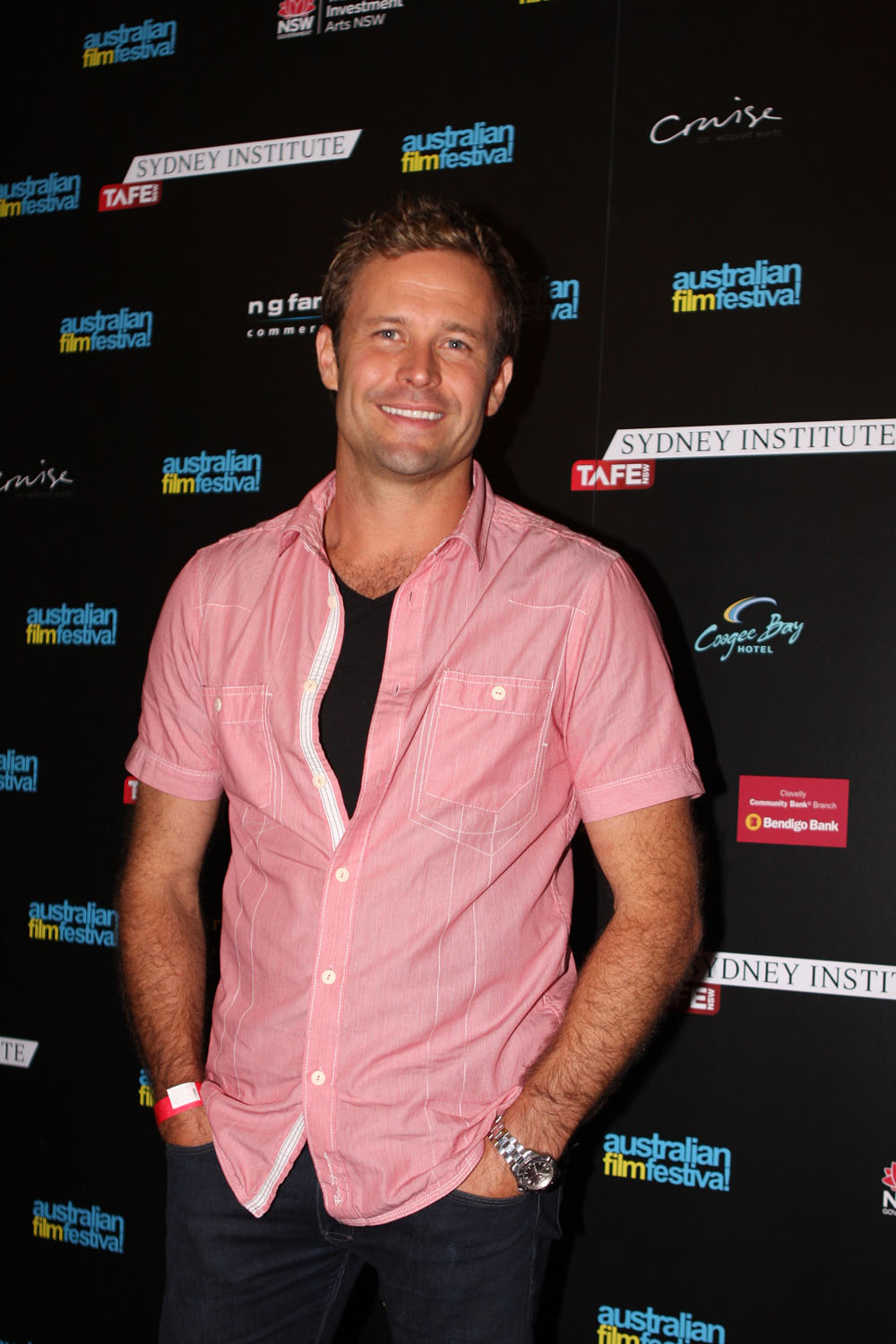 David Whitehill at the Australian Film Festival at Randwick Ritz, Sydney, Australia